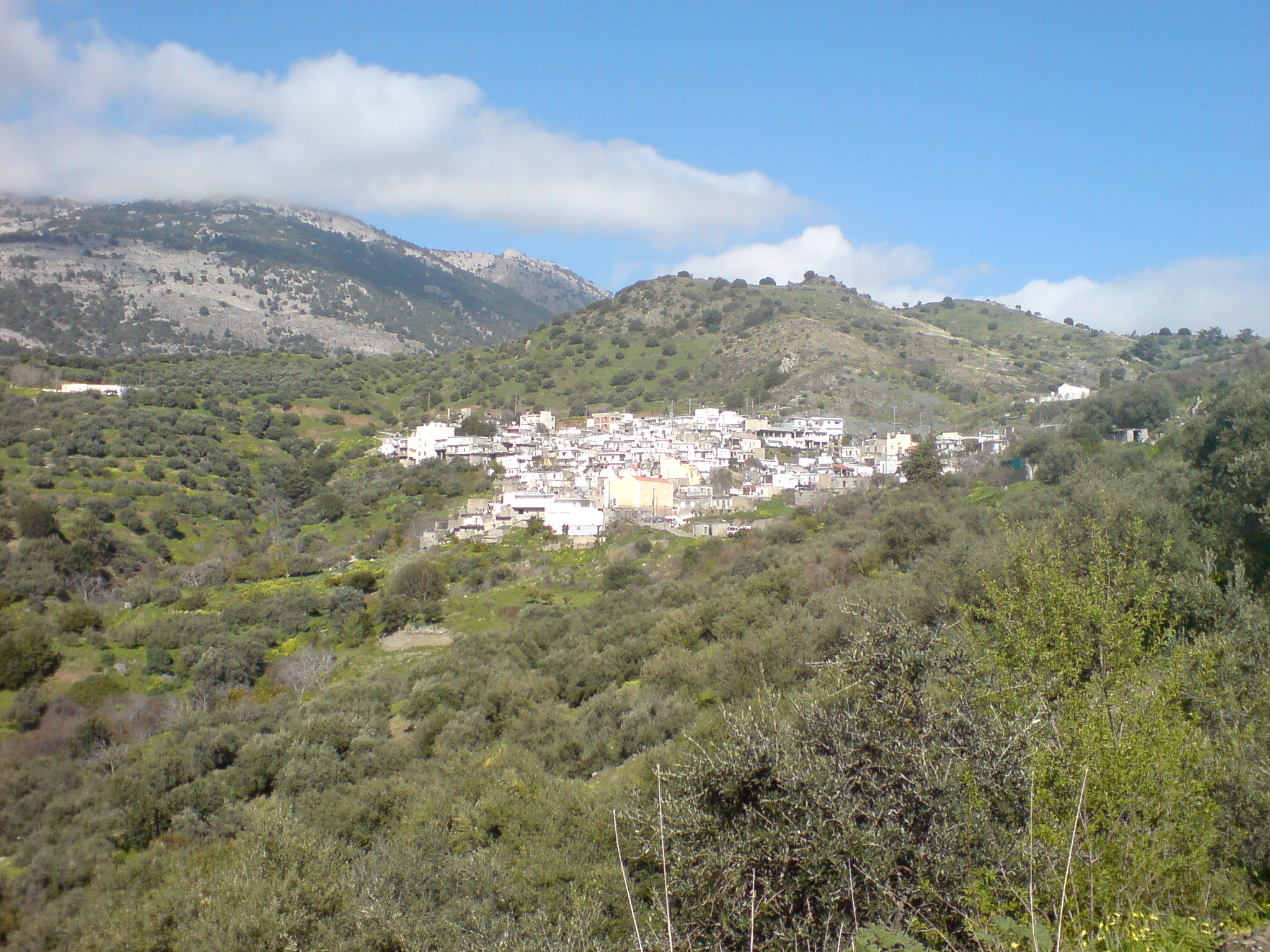 A view from Sykologos, Southern Heraclion.